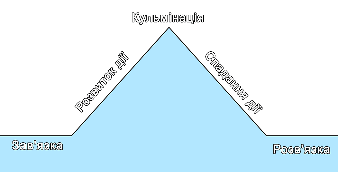 Freytag's pyramid of plot